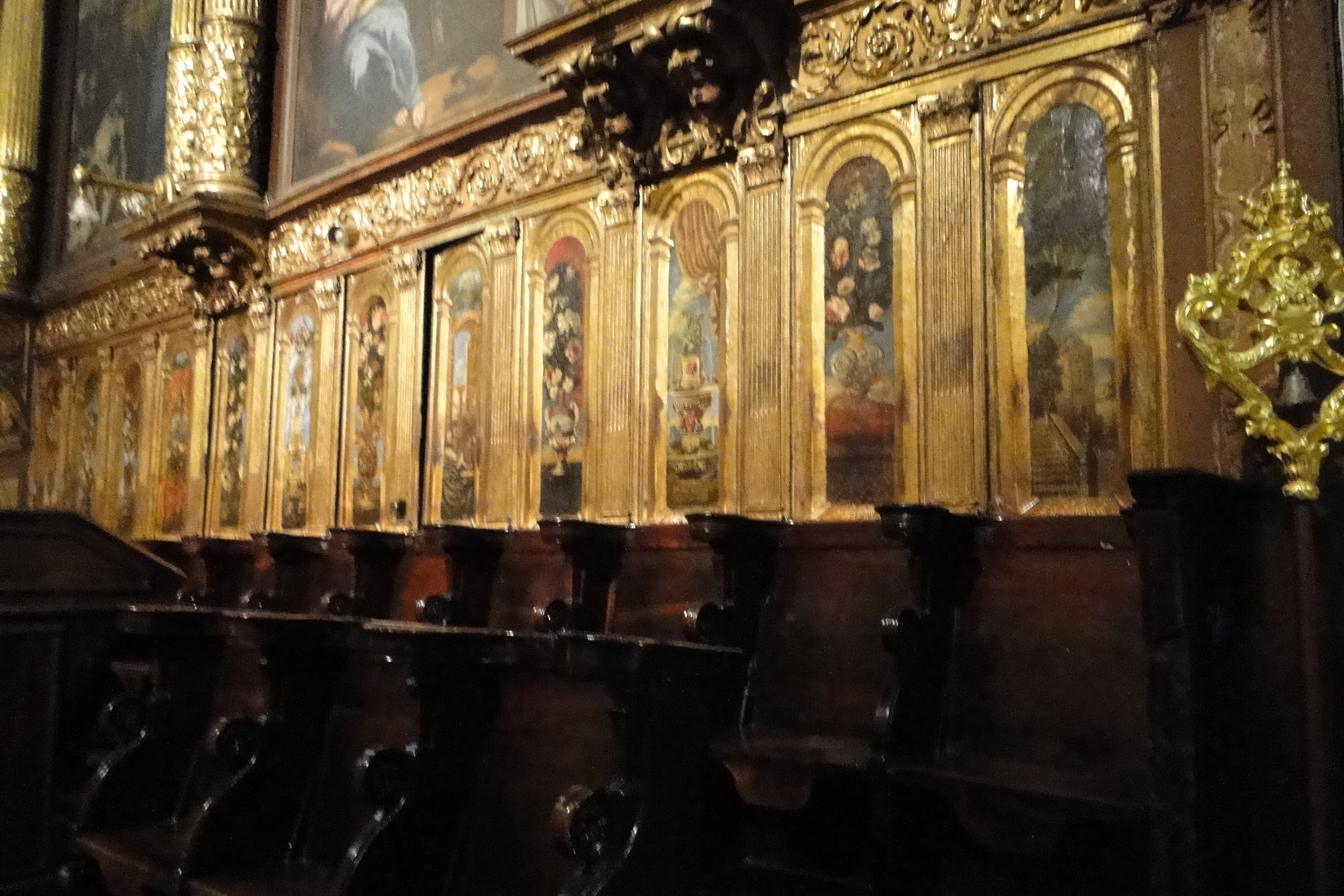 Details of the choir in the Church of St. Peter at Avignon (France)